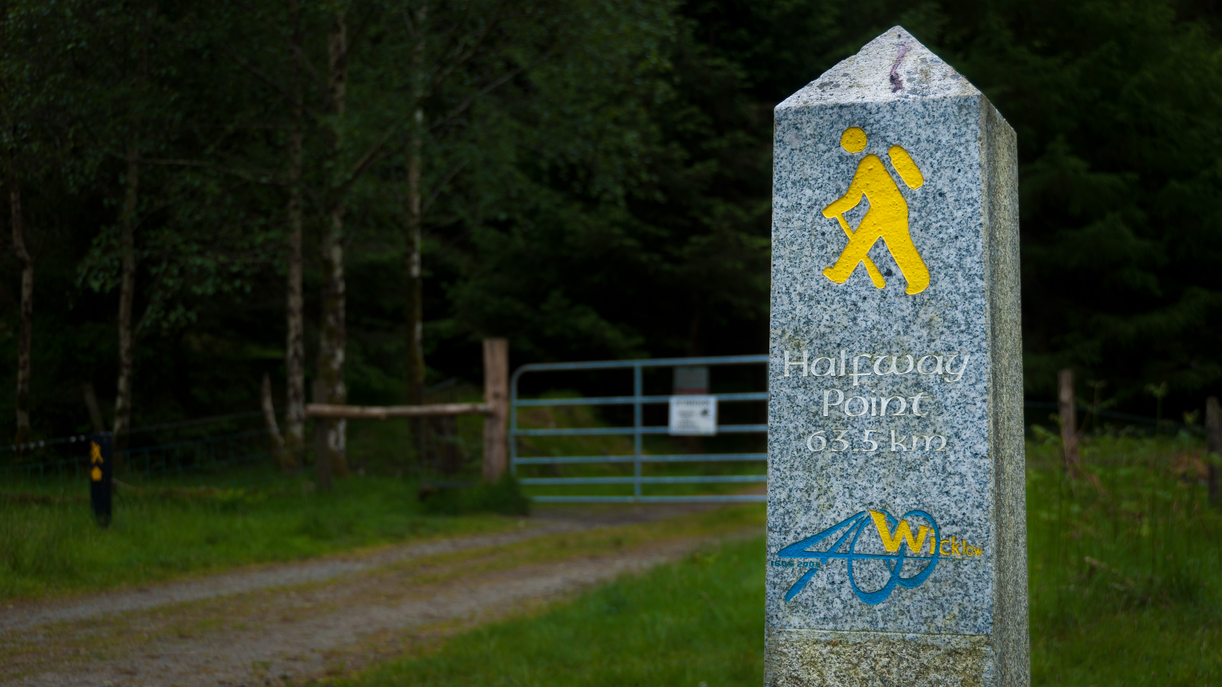 Stone pillar at the entrance to Drumgoff Forest, County Wicklow, Ireland, marking the halfway point of the Wicklow Way, a long distance walking route across the Wicklow Mountains from Marlay Park, County Dublin to Clonegal, County Carlow. The pillar was erected in 2006 to mark the twenty-fifth anniversary of the opening of the trail.